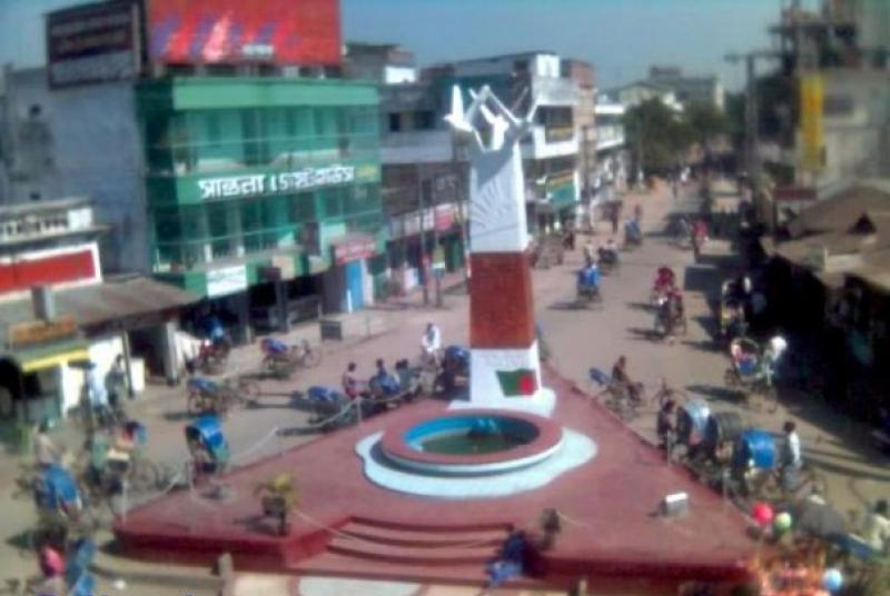 ngpur paira chottor